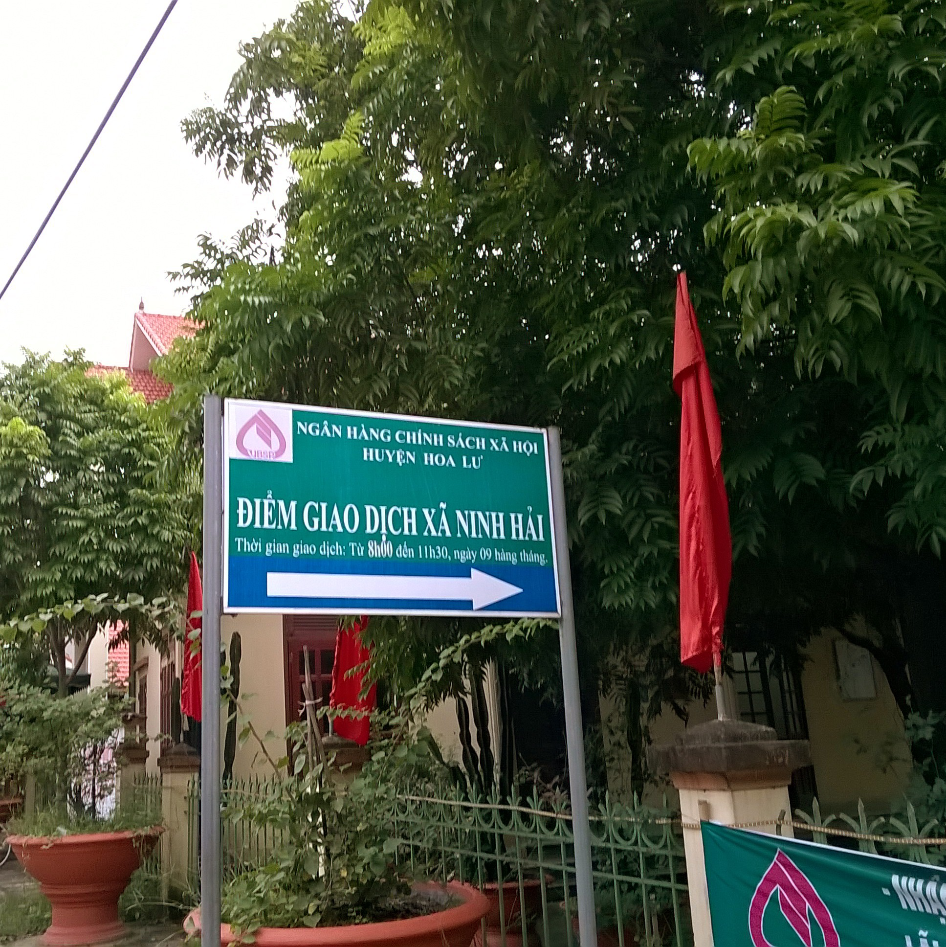 VBSP's signboard